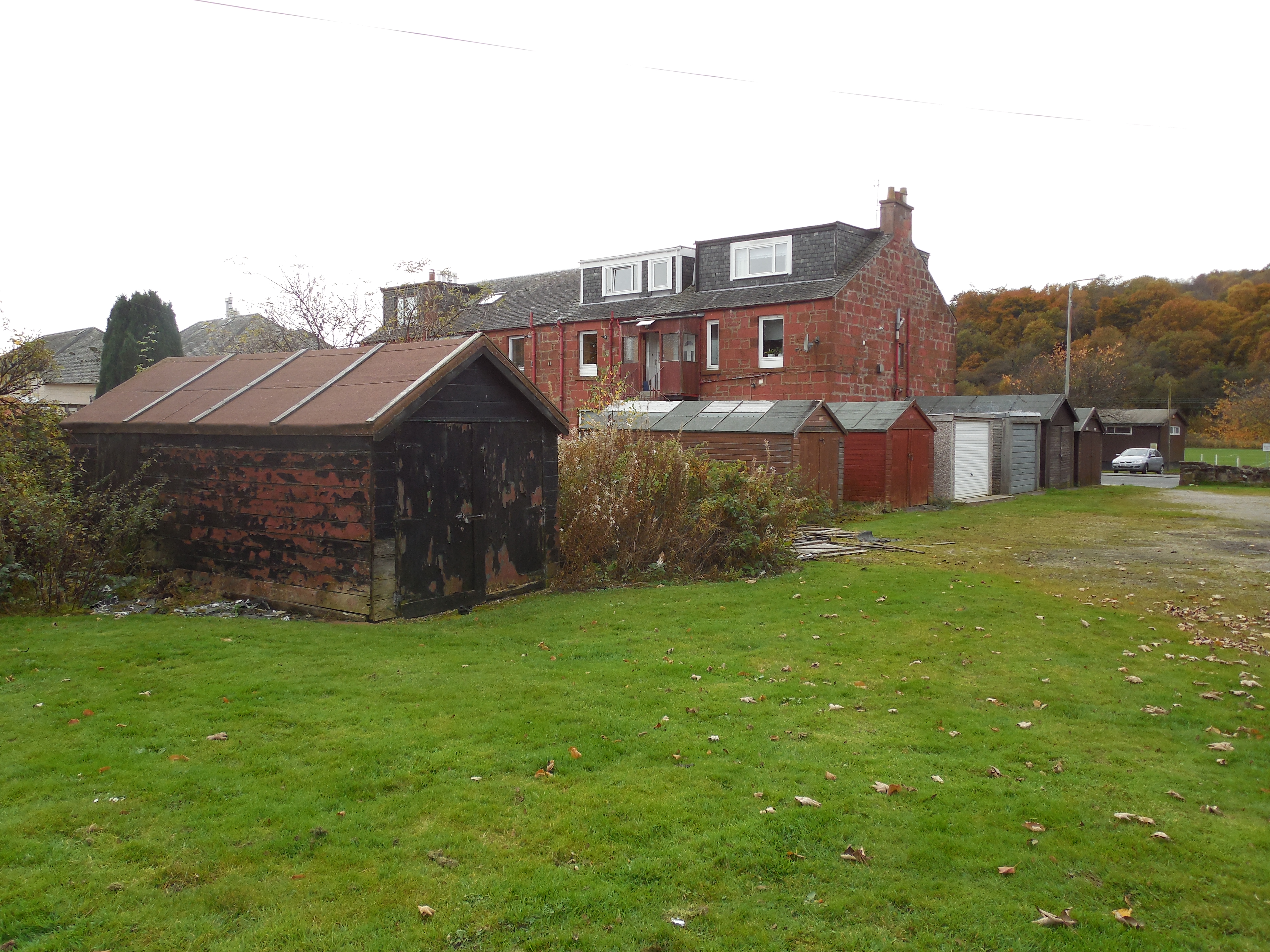 Lock-ups at John Street, Tontine Park, Renton